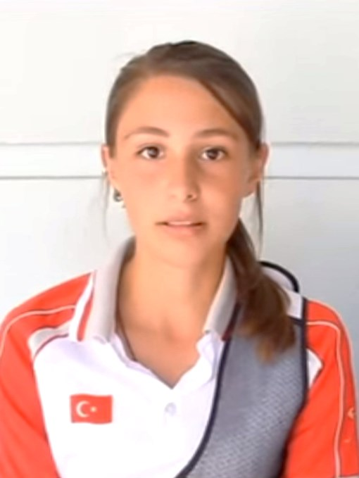 Turkish archer Aybüke Gümrükçü